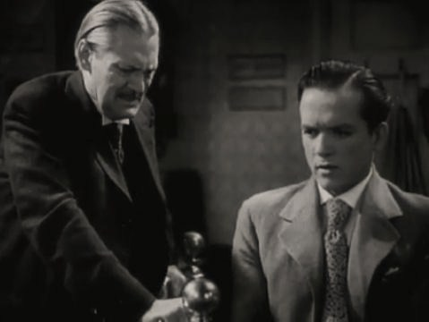 Lionel Barrymore (left) & Eric Linden in Ah, Wilderness! - trailer (cropped screenshot)